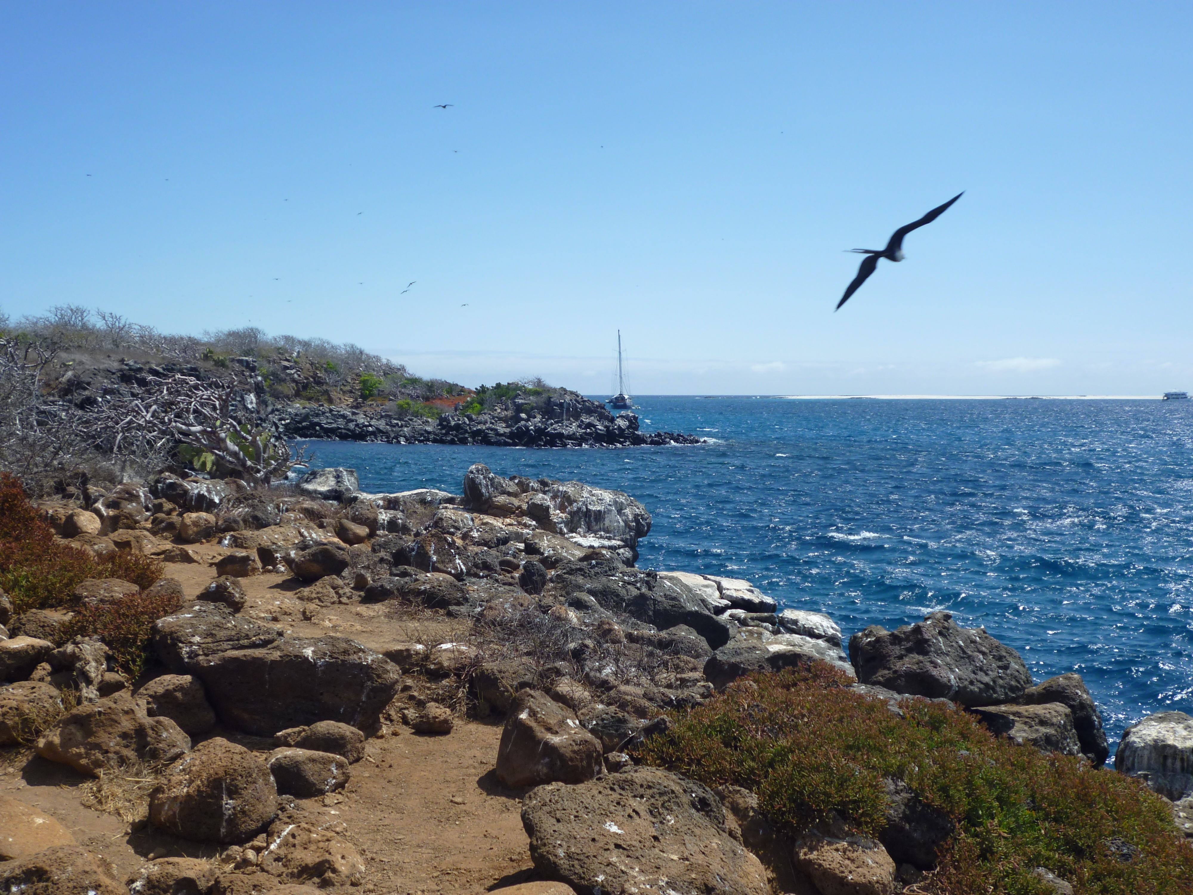 Coast of North Seymour Island in the Galápagos with a bird in flight in a blue sky.